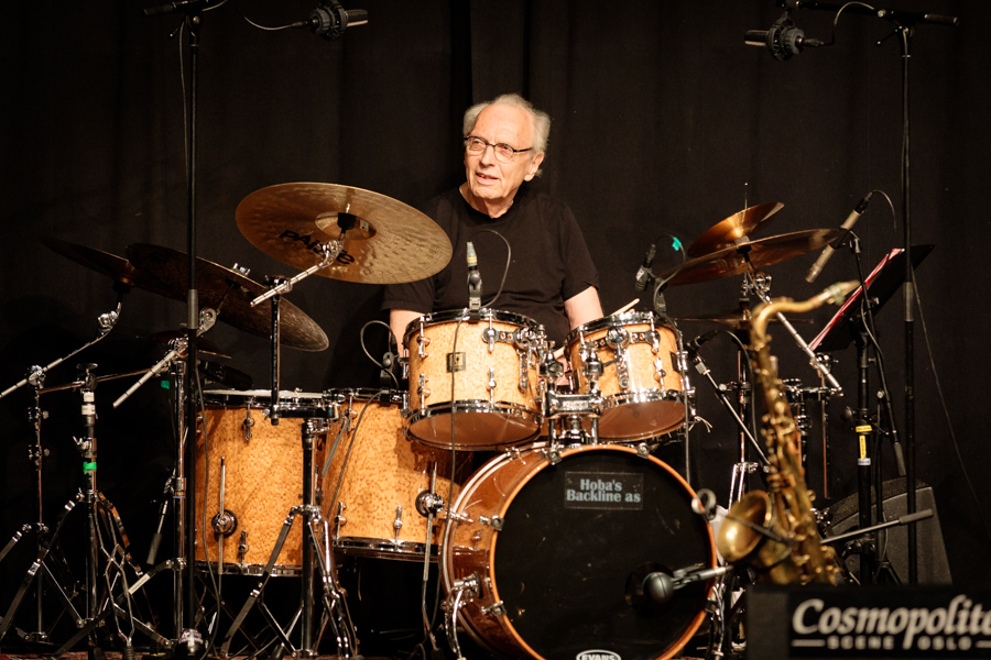 John Marshall with Soft Machine at Cosmopolite. The concert took place on 06. September 2018 in Oslo. Lineup: John Etheridge (guitar) Theo Travis (tenor saxophone and keyboard) Roy Babbington (bass guitar) John Marshall (drums)